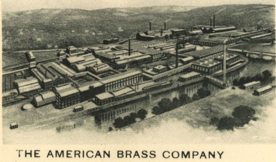 American Brass Company plant. From: Aerial view of Ansonia, Connecticut, in 1921, by Hughes & Bailey, a graphic artist company. Library of Congress Geography and Map Division call number G3784.A6A3 1921.H8. Digital ID number: g3784a pm000770. Small portion of the complete work, showing only the American Brass Company plant.